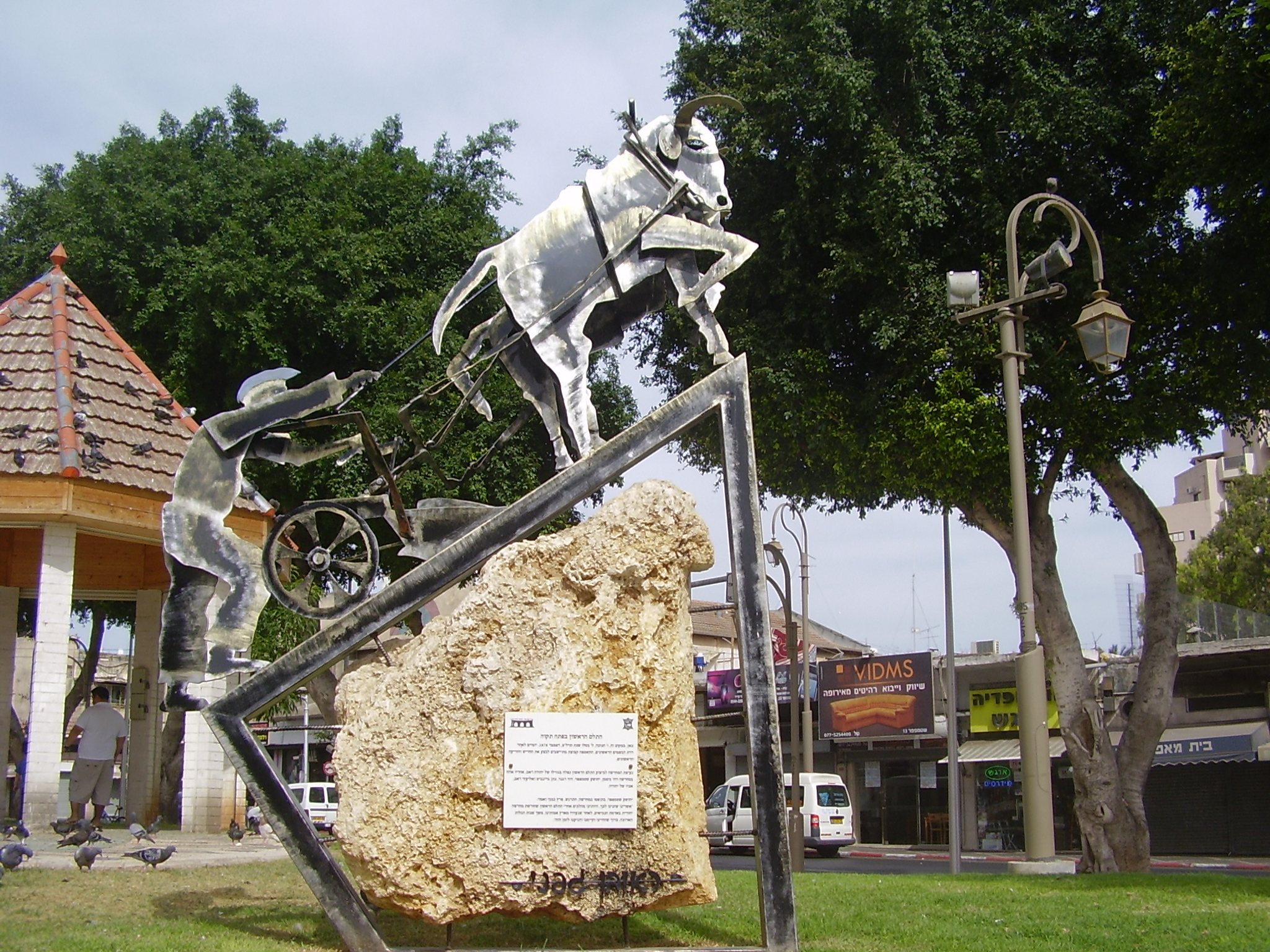 "The first plowing in Petah Tikva", Israel